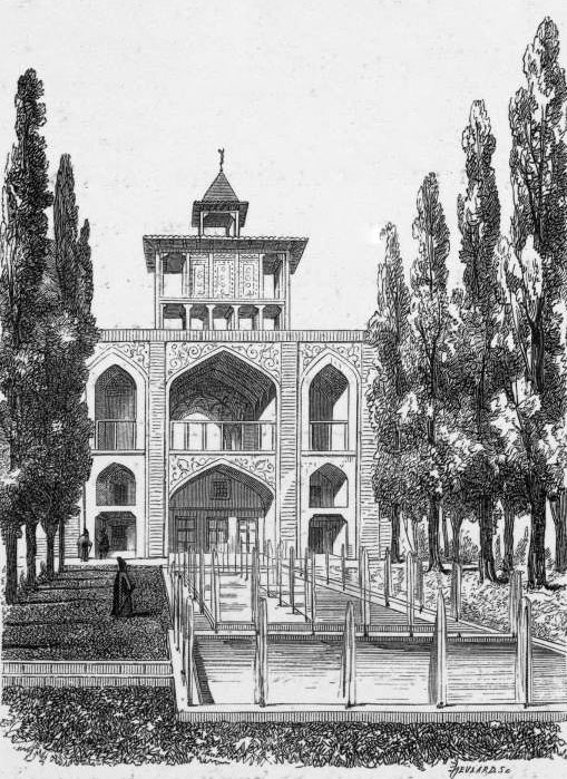 Residence Royal Bagh Shah Fin